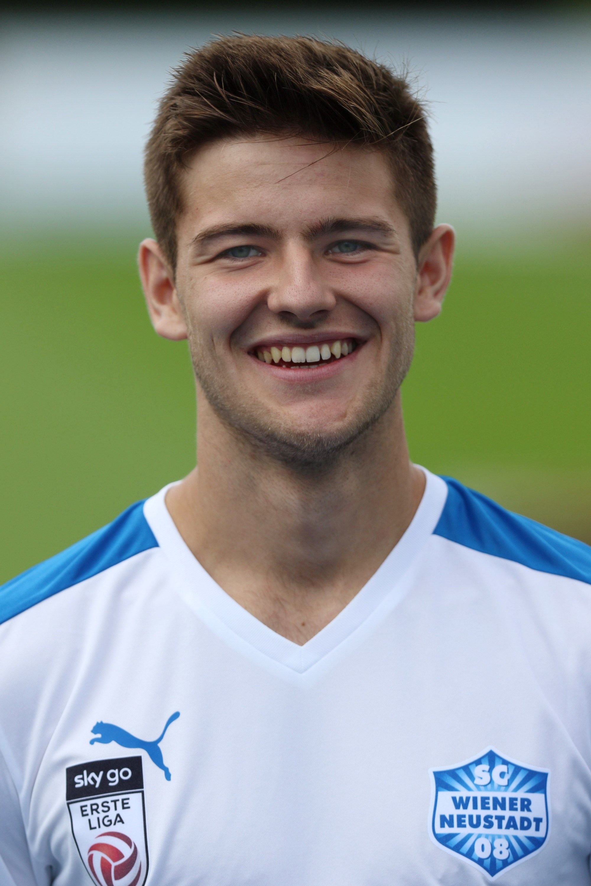 SC Wiener Neustadt squad presentation summer 2017. – The photo shows Philipp Seidl.